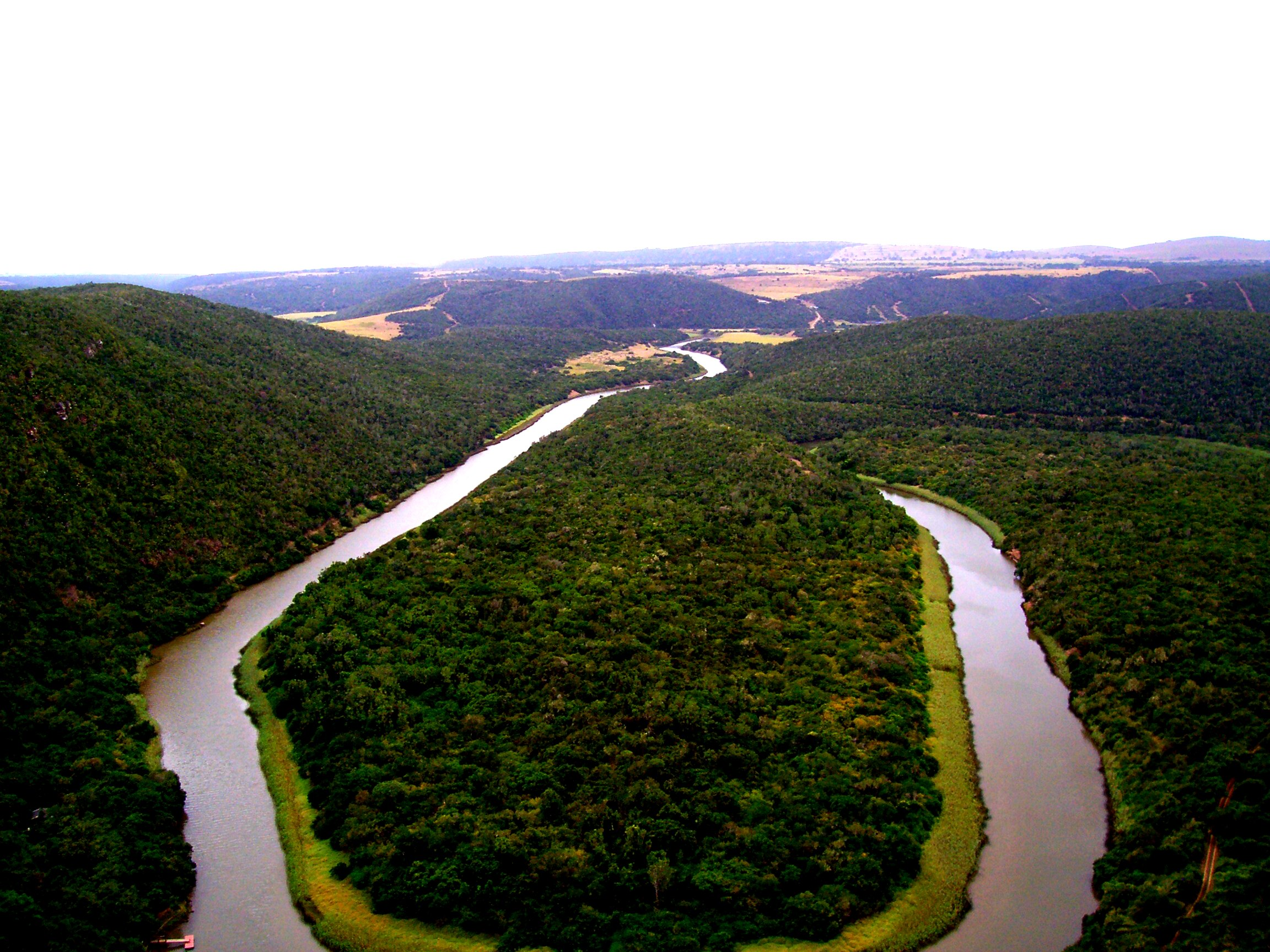 Bathurst, South Africa February 19, 2007